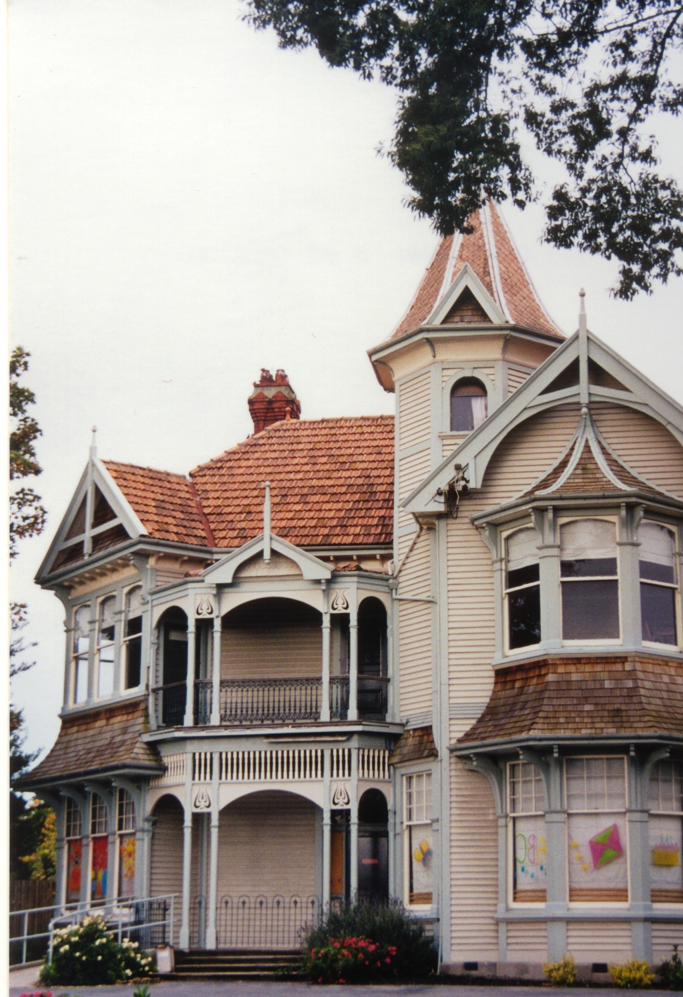 Wharetiki House in 2002 or 2003.